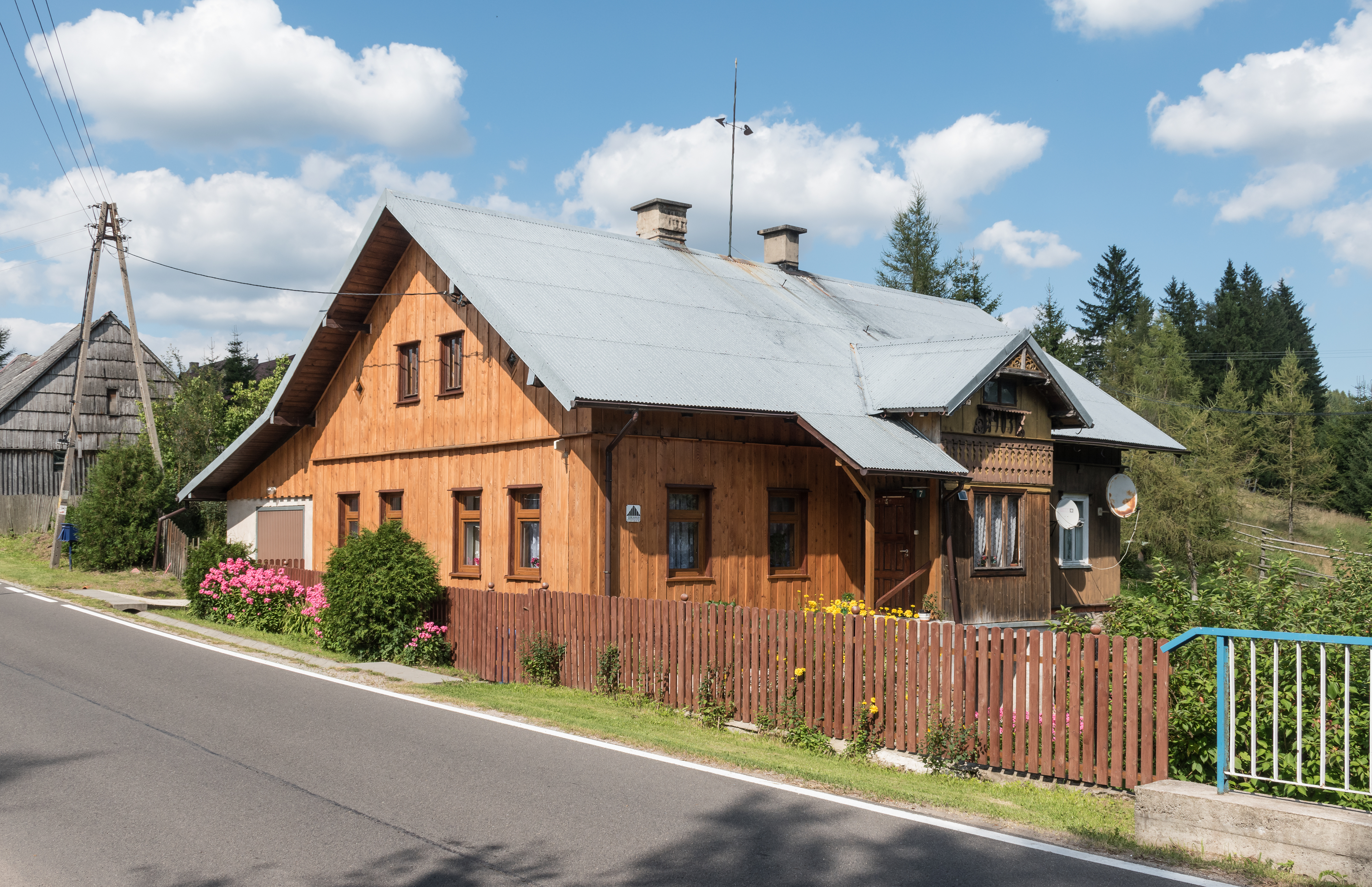 House No. 7 in Mostowice